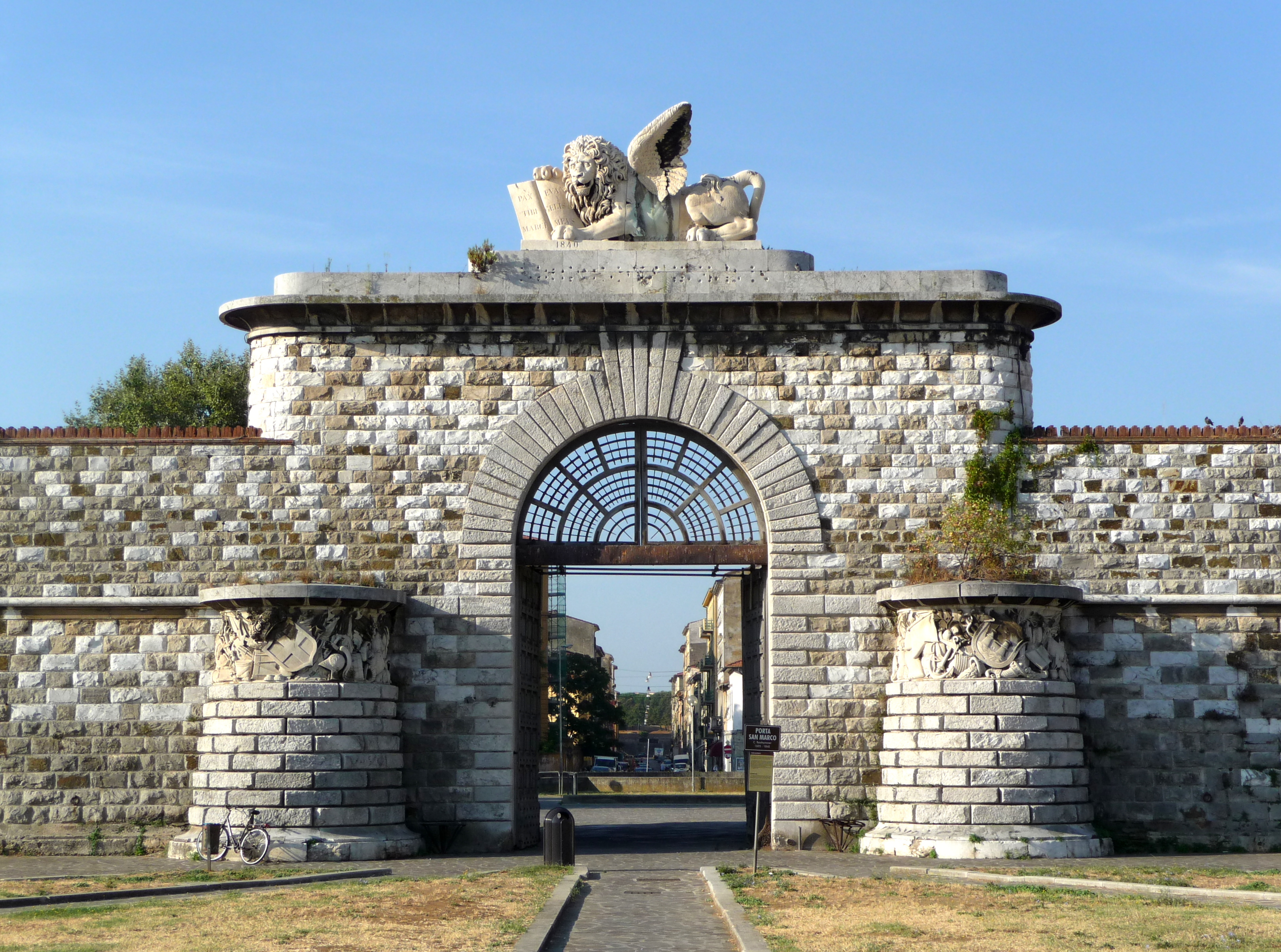 Porta San Marco, Livorno, Italy